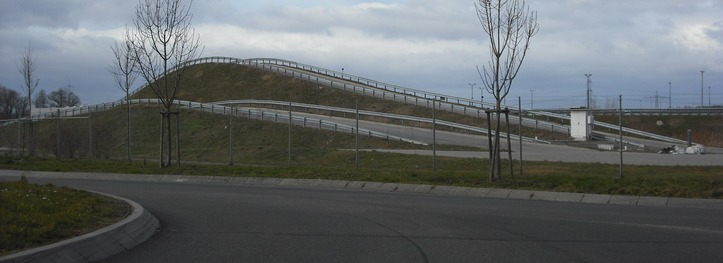 Woerth Daimler